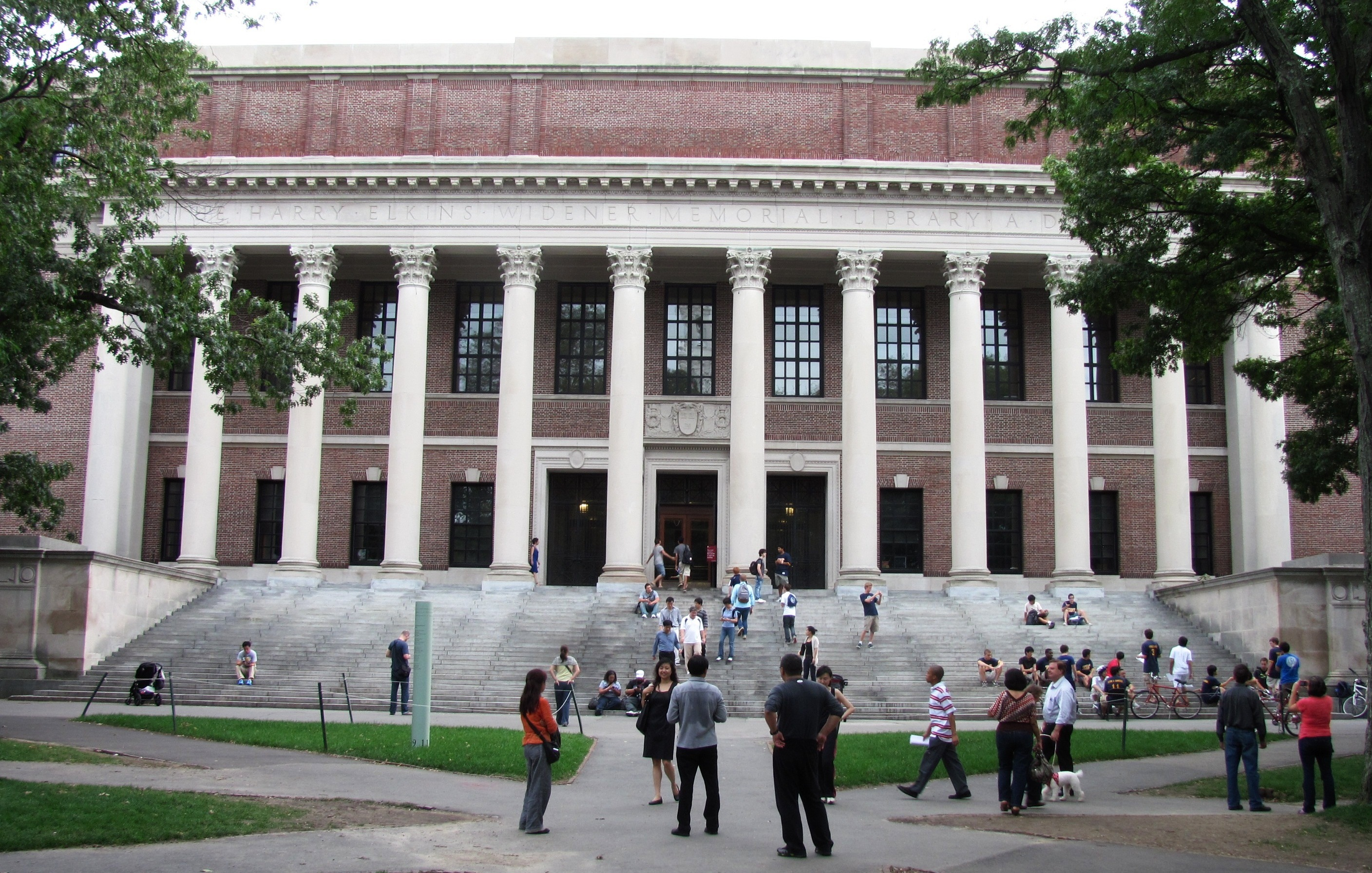 Widener Library, Harvard University, Cambridge Massachusetts